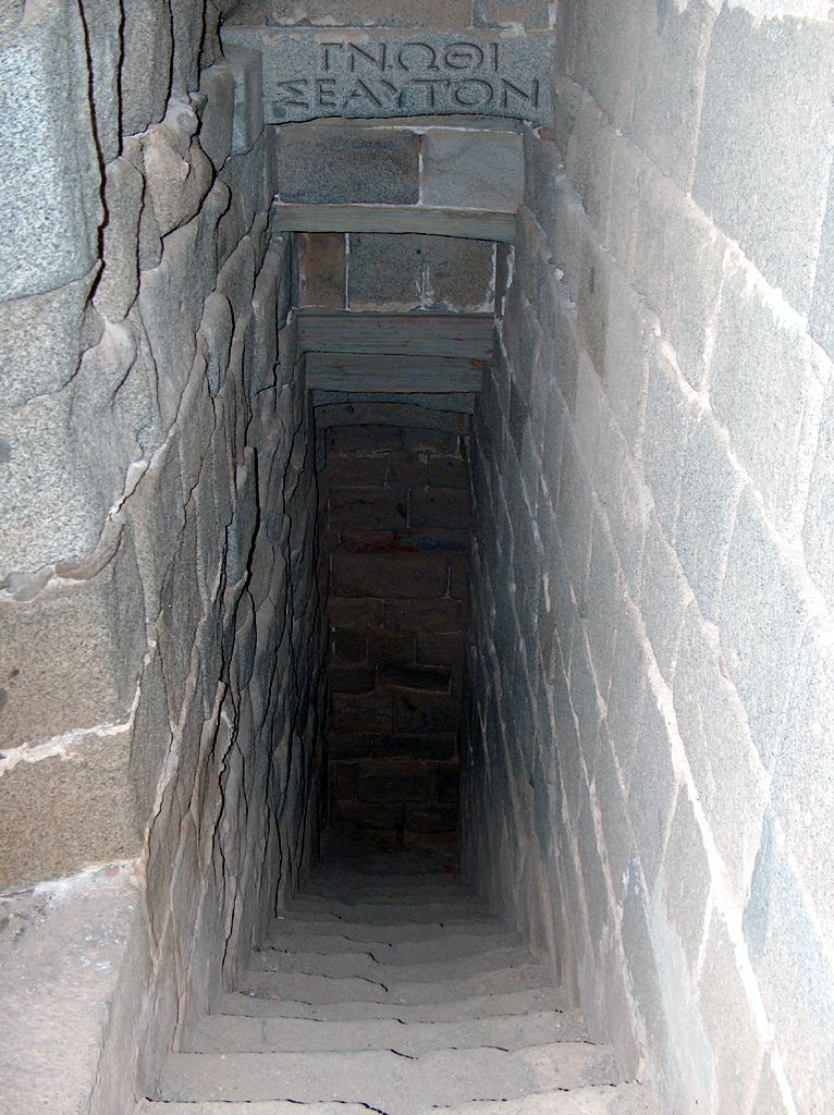 Gnothi seauton (Know thyself). Edited in photoshop. See original photo here